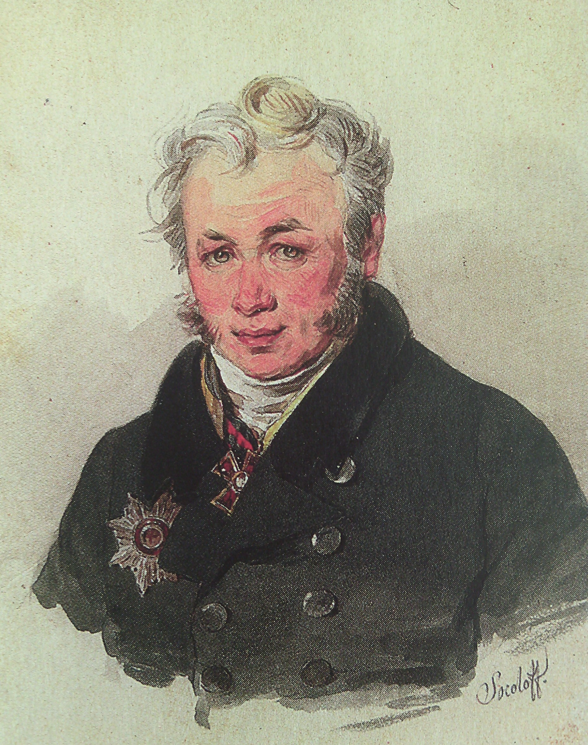 Aleksei Vasilevich Vasilchikov, 1772-1854